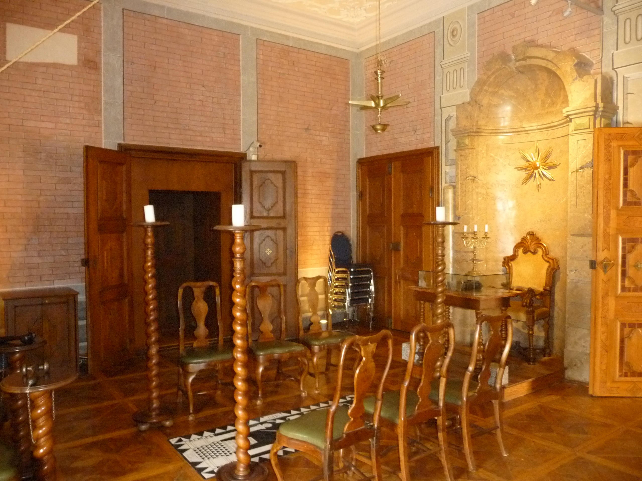 Rosenau Castle, Austrian Museum of Freemasonry: Temple Room, looking north towards Room 7.